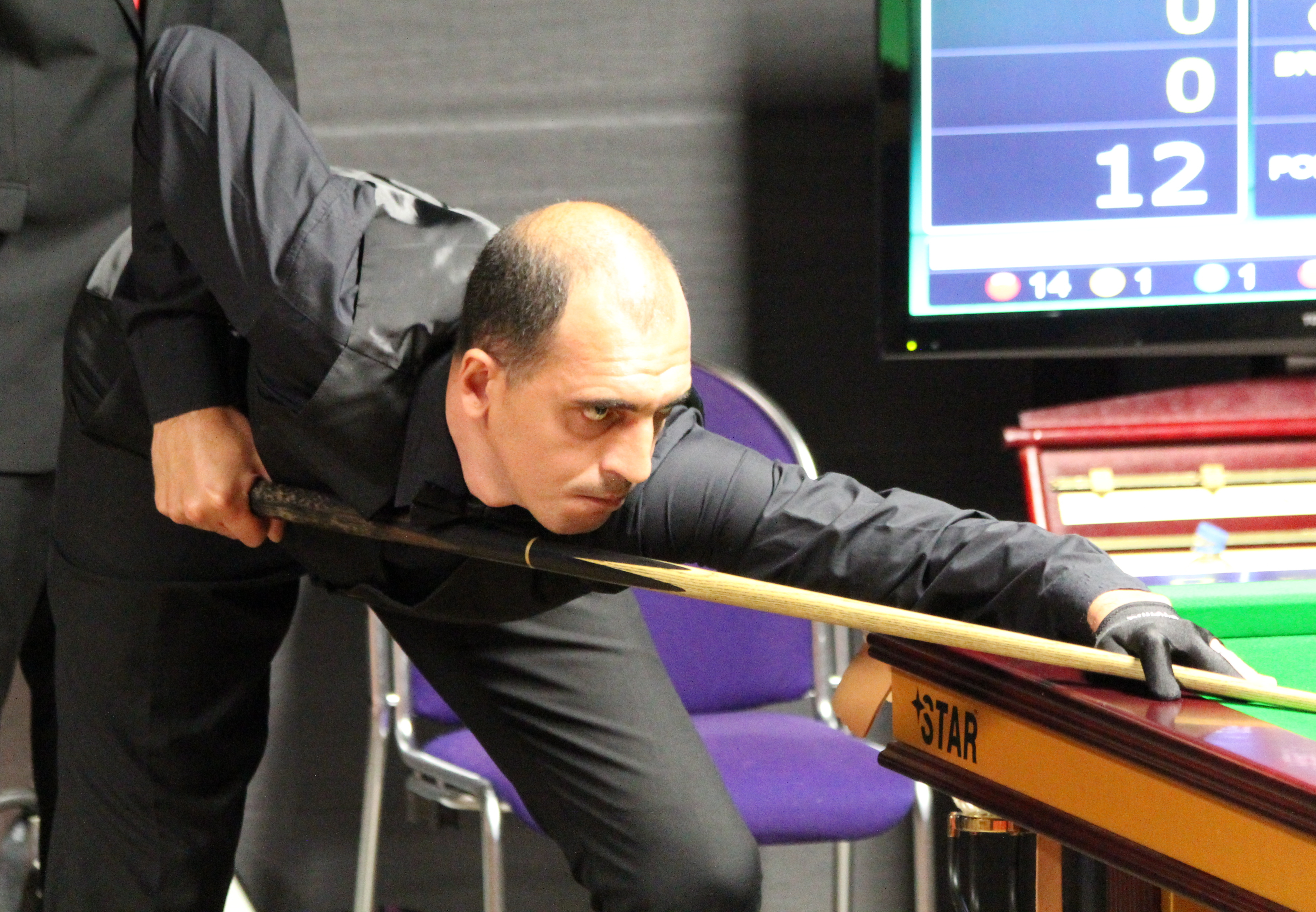 Basem Eltahhan at the Paul Hunter Classic 2018